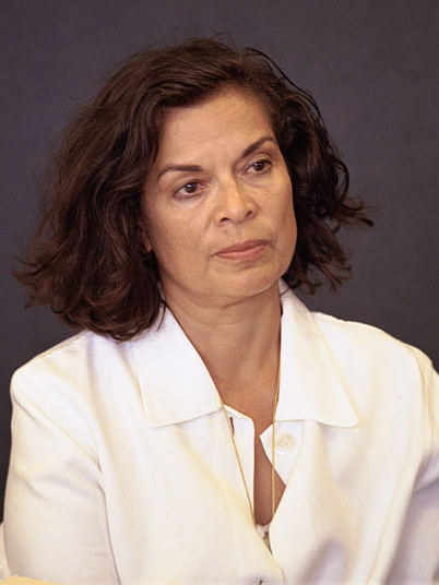 SI Neg. 2002-28163.08a. Date: 7/17/2002... Human rights activist, Bianca Jagger, addressing human rights issues in Afghanistan and the West Bank during a press conference at the National Press Club. She was recently on a fact-finding tour of the West Bank and had traveled to Afghanistan. ..Credit: Jim Wallace (Smithsonian Institution)